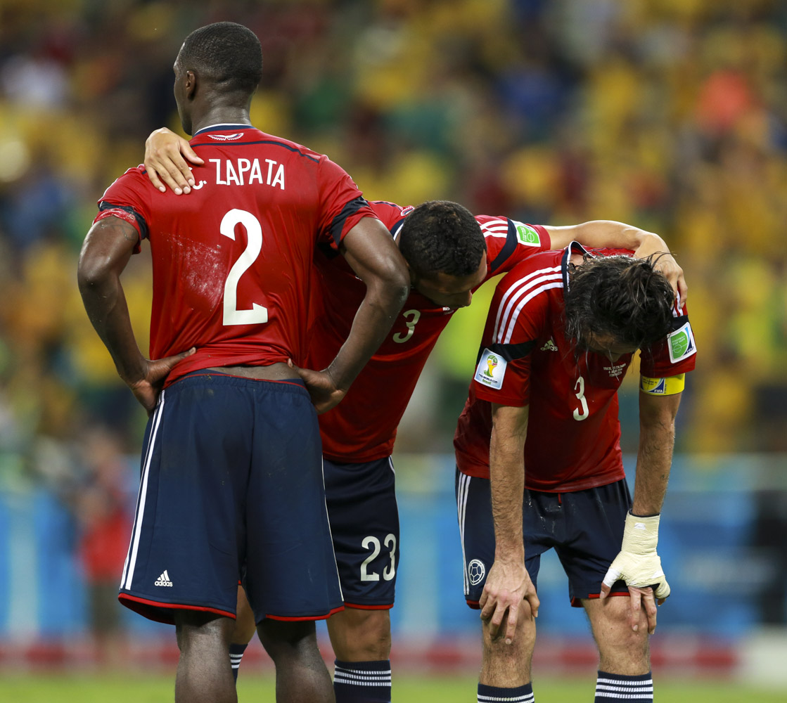 Brazil and Colombia match at the FIFA World Cup 2014-07-04